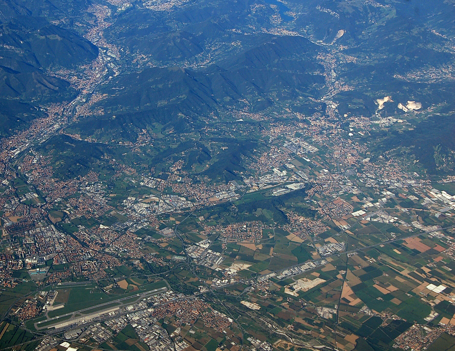 Aerial photographs